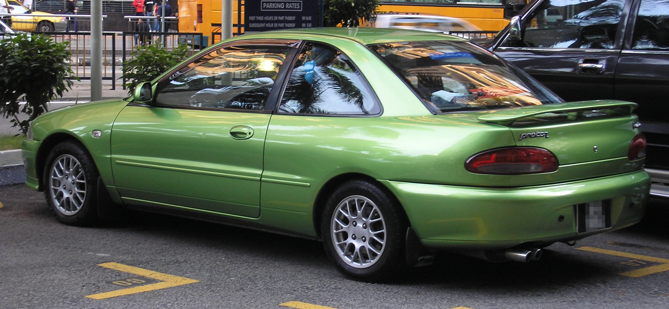 The rear of a Proton Putra (presumed to be in a non-factory color), in Bukit Bintang, Kuala Lumpur, Malaysia.